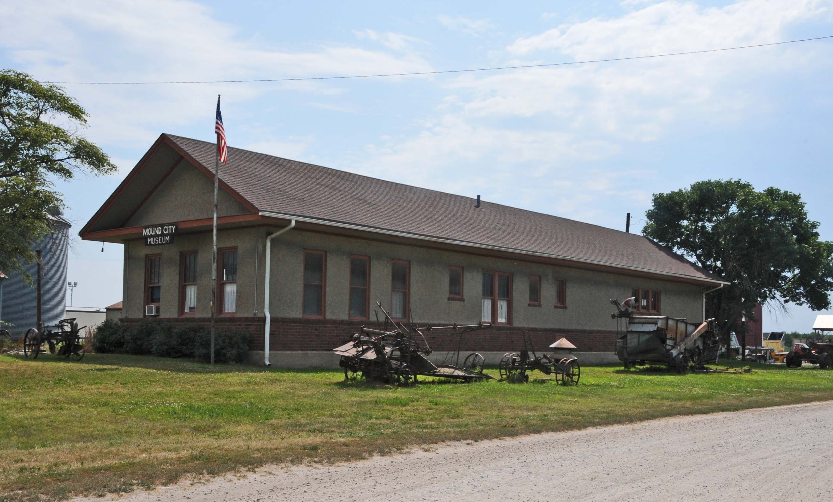 1921; THE C.B. & Q. DEPOT AT MOUND CITY NEATLY FITS THE DESCRIPTION FOR A STANDARD, SMALL, TWO-TRACK, ONE-SIDED, COMBINATION STATION OF THE FIRST DECADES OF THE TWENTIETH CENTURY . IT IS NOW USED AS A MUSEUM